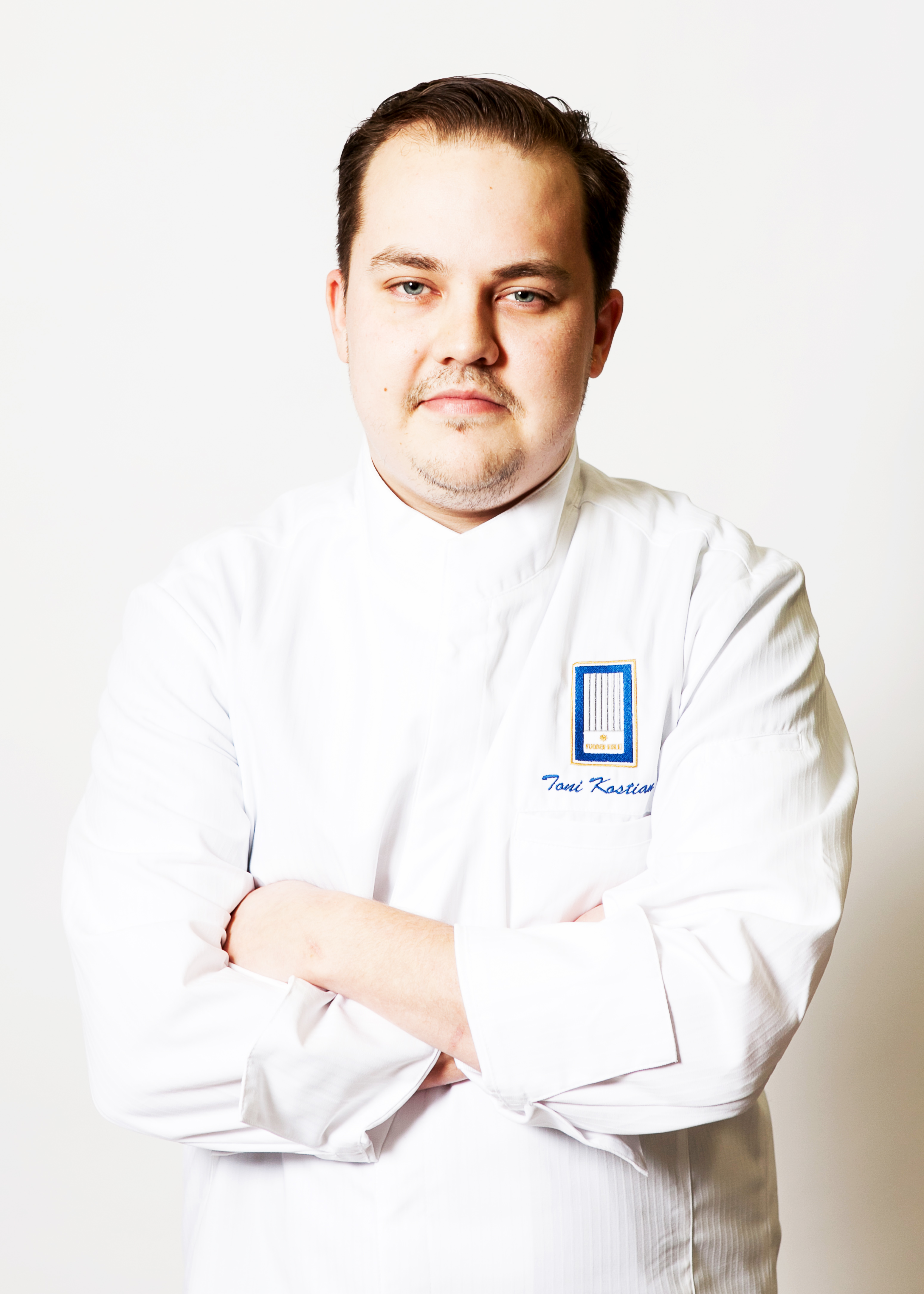 Chef Toni Kostian from Finland. Mr. Kostian was winner of Vuoden kokki 2016 competition (Chef of the Year 2016, Finland).